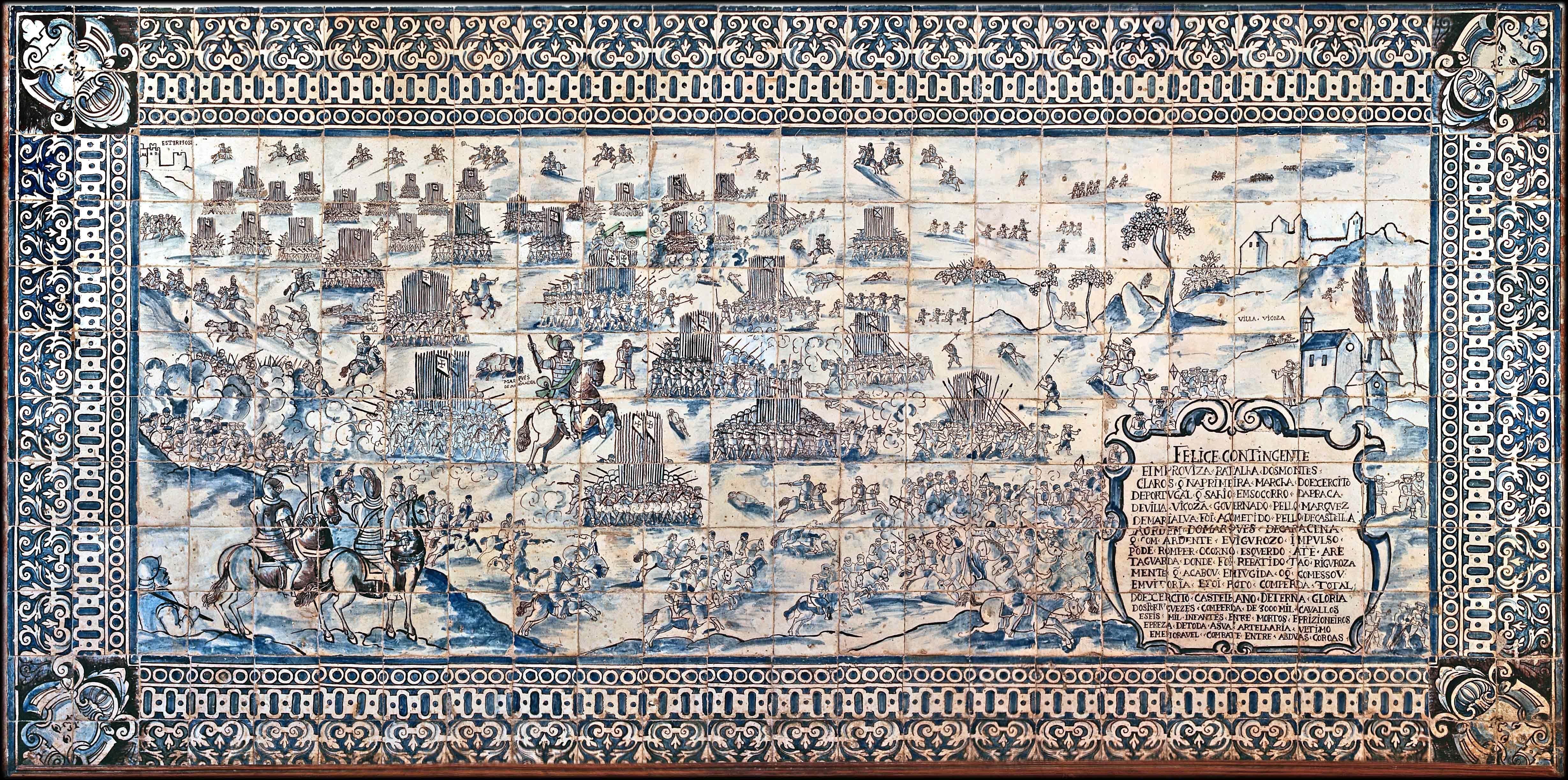 Lisbon, Palace Fronteira, The Battles Hall, 17th century azulejo depiction of the Batlle of Montes Claros